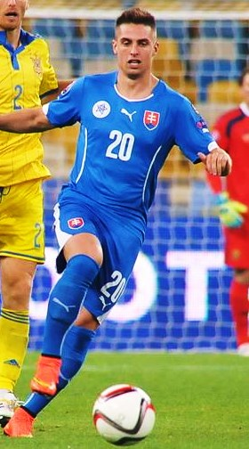 Robert Mak